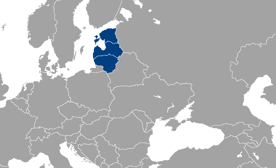 Map of the Baltic countries.